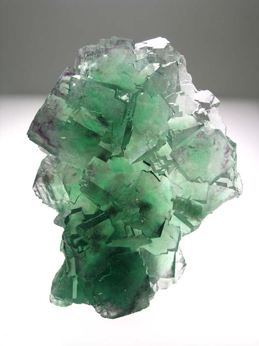 Fluorite Locality: Okorusu Mine (Okarusu Mine), Otjiwarongo District, Otjozondjupa Region, Namibia (Locality at ) This is an extremely unusual and beautiful Okarusu fluorite, of good size, with BRIGHT GREEN color (a more intense green that even the photos show) and splendid glowing transparency. Under a decent light (such as the lighting in your average case) it glows like art glass! Hints of purple here and there show its Okarusu origins. The crystals have beautiful edge and corner modifications, to boot. Specimen is sawn flat on the back as are many Okarusu pieces, in removal from the pockets. That does not show from the display. It really is quite impressive 10.8 x 8.1 x 2.6 cm